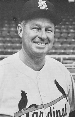 Professional baseball coach Joe Schultz Jr.